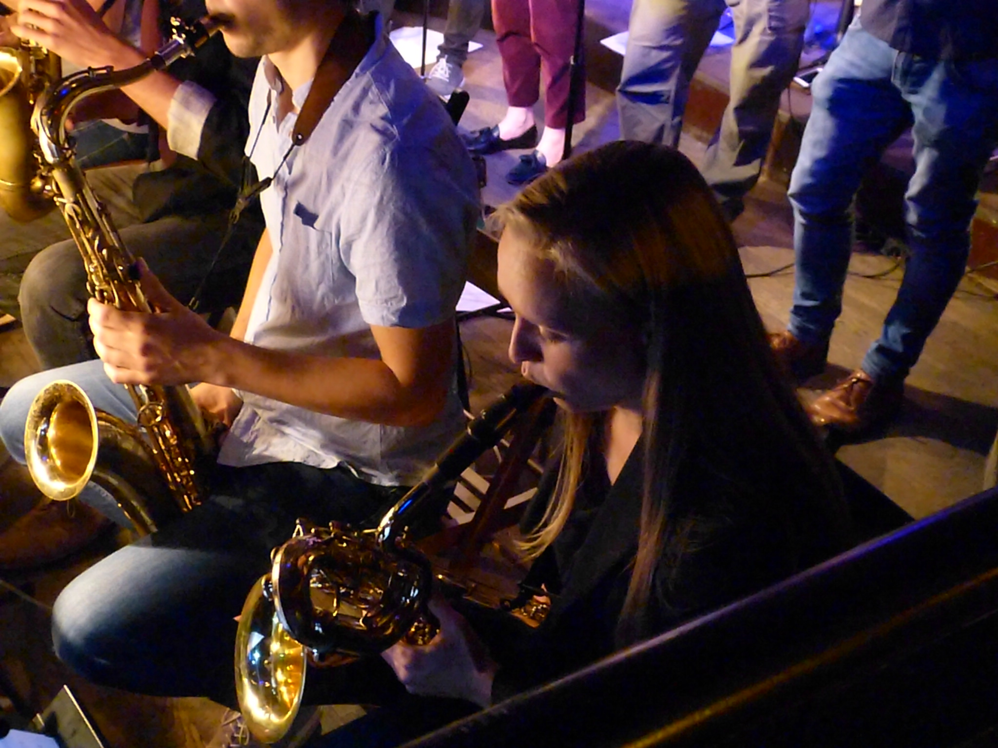 Susanne Weidinger (s,bcl) in the concert "Big Company" of the Subway Jazz Orchestra feat. Florian Ross (arr,comp), September 12th, 2018 at Subway (Cologne), Germany, with Shannon Barnett and others